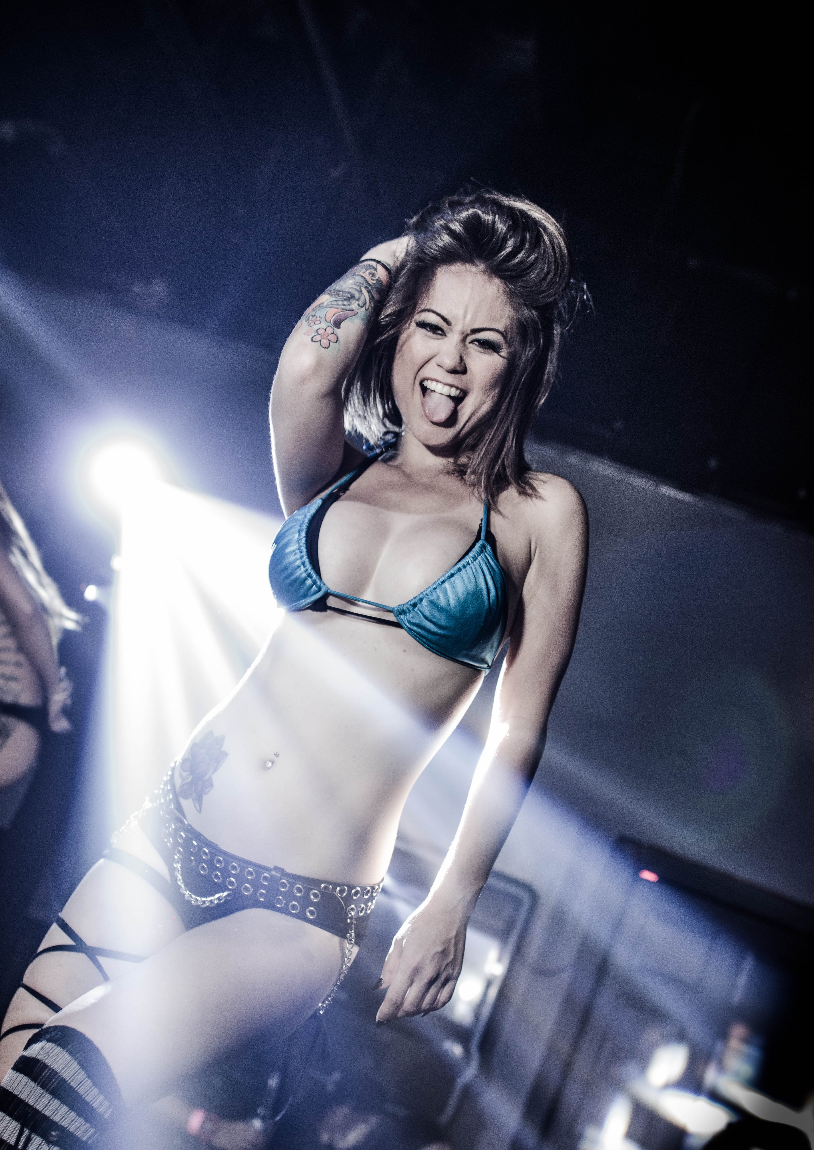 Gogo Dancer Cherry Lei dancing at The Fix, in Honolulu, Hawaii on June 27, 2014